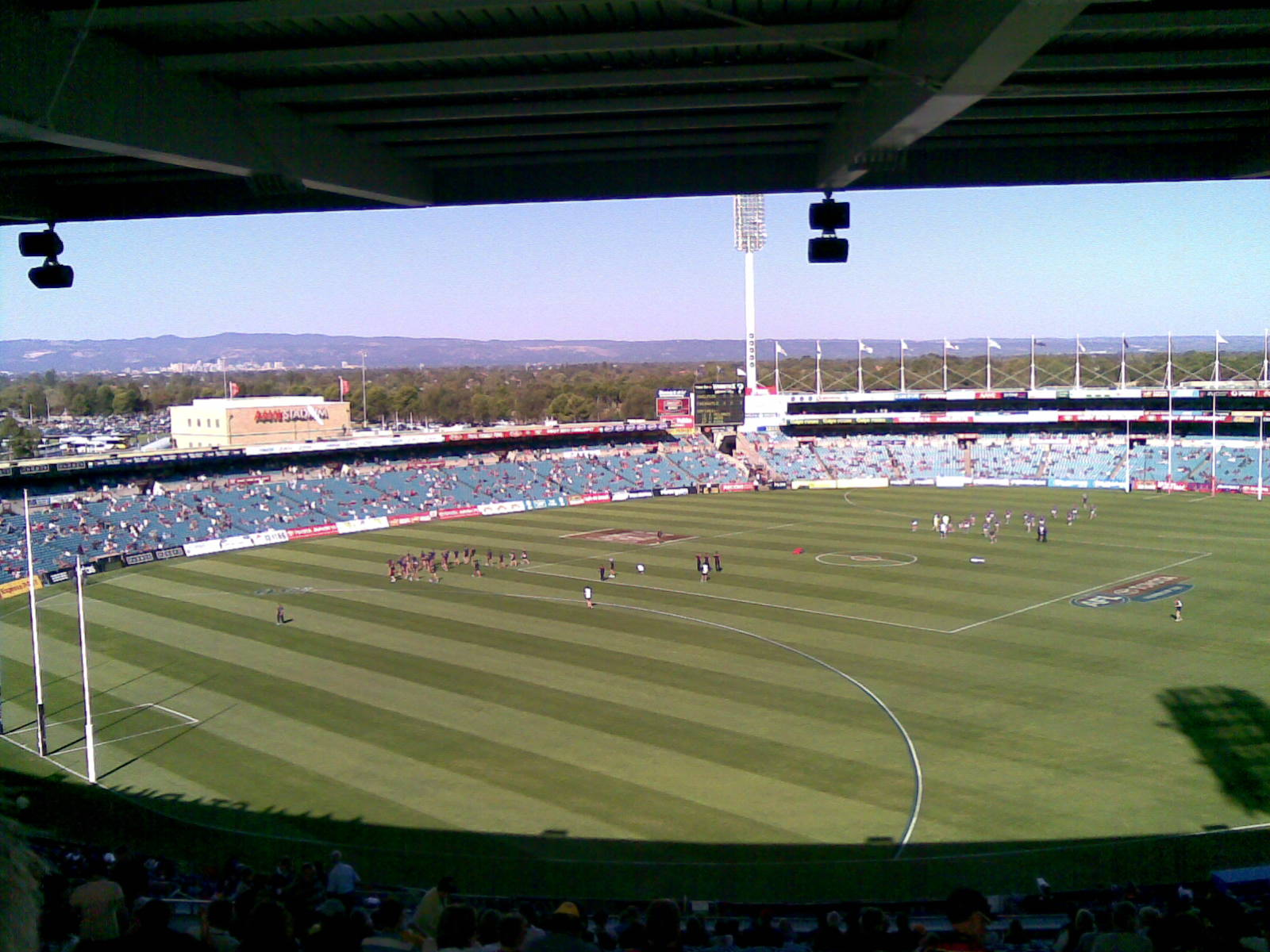 AAMI Stadium from the top seating level, during a game between the Adelaide Crows and the Port Power.